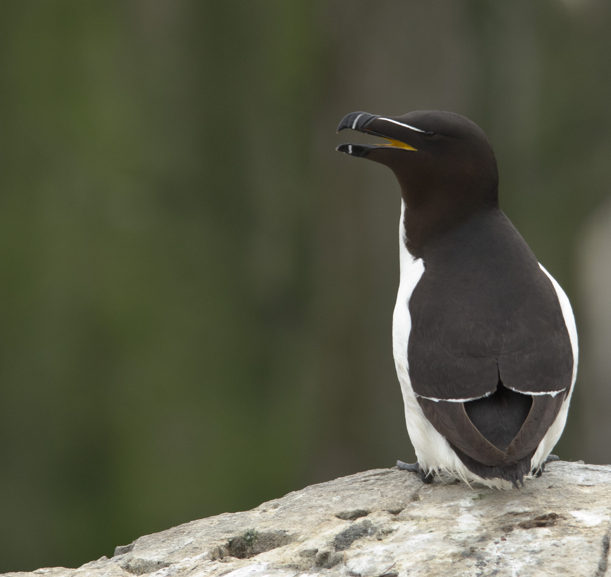 A Razorbill on Staple Island, Farne Islands, Northumberland, England.